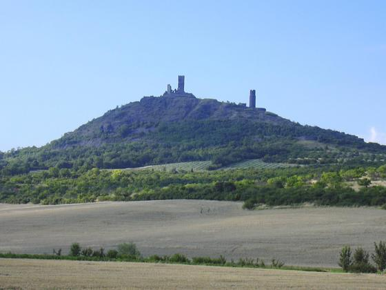 Ruins of the Hazmburk Castle. Foto pořídil Miraceti v červenci 2003.